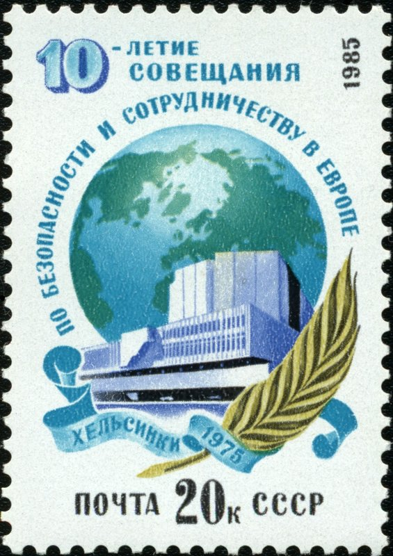 A USSR stamp, 10th Anniversary of European Security and Co-operation Conference. Date of issue: 25th July 1985. Designer: R. Strelnikov. Michel catalogue numbers: 5535; Klb.5535. 20 K. multicoloured. Finland palace and globe.